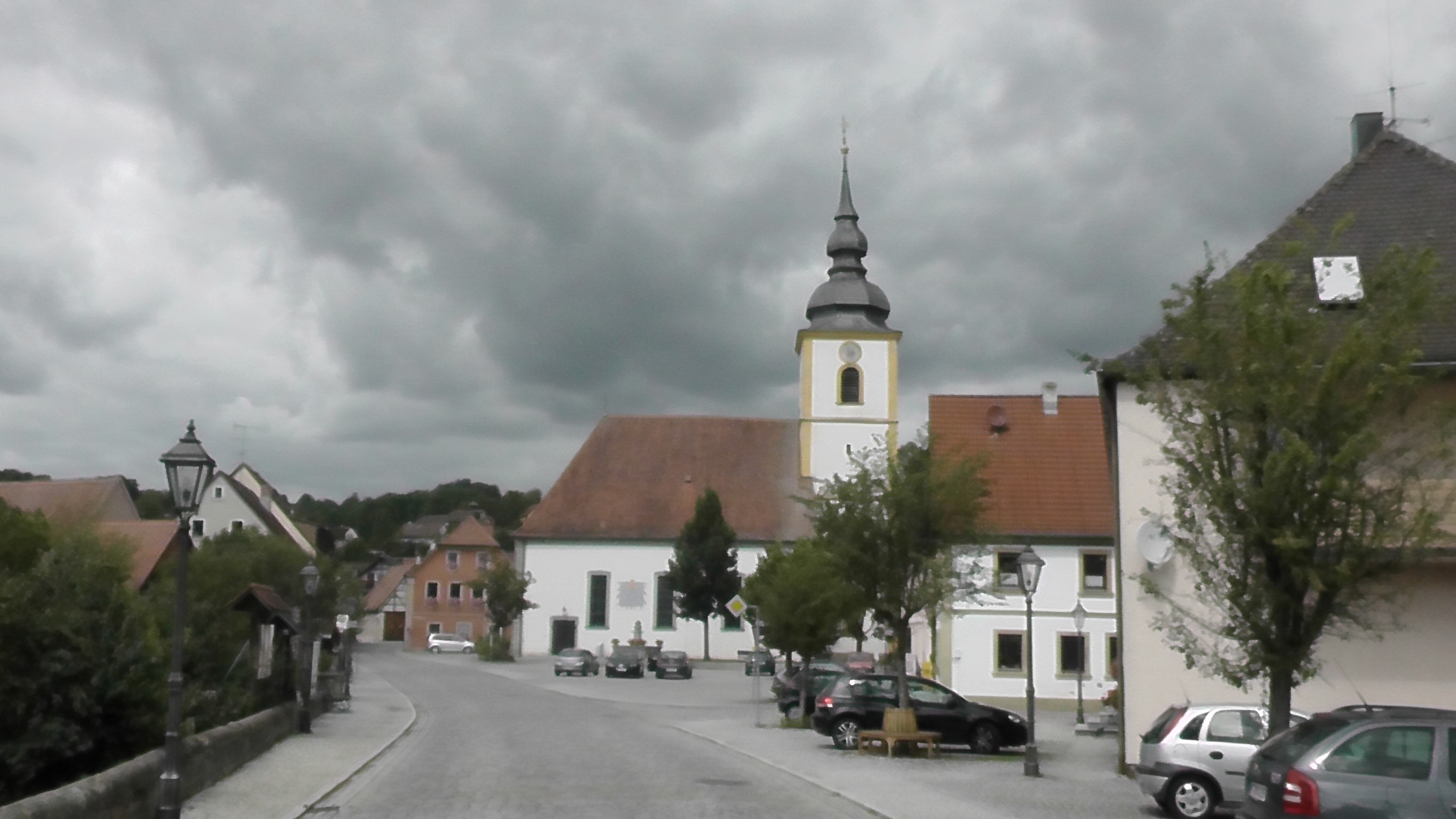 View on Burghaslach's marketplace and St Ägidius's Church (Germany, Bavaria)